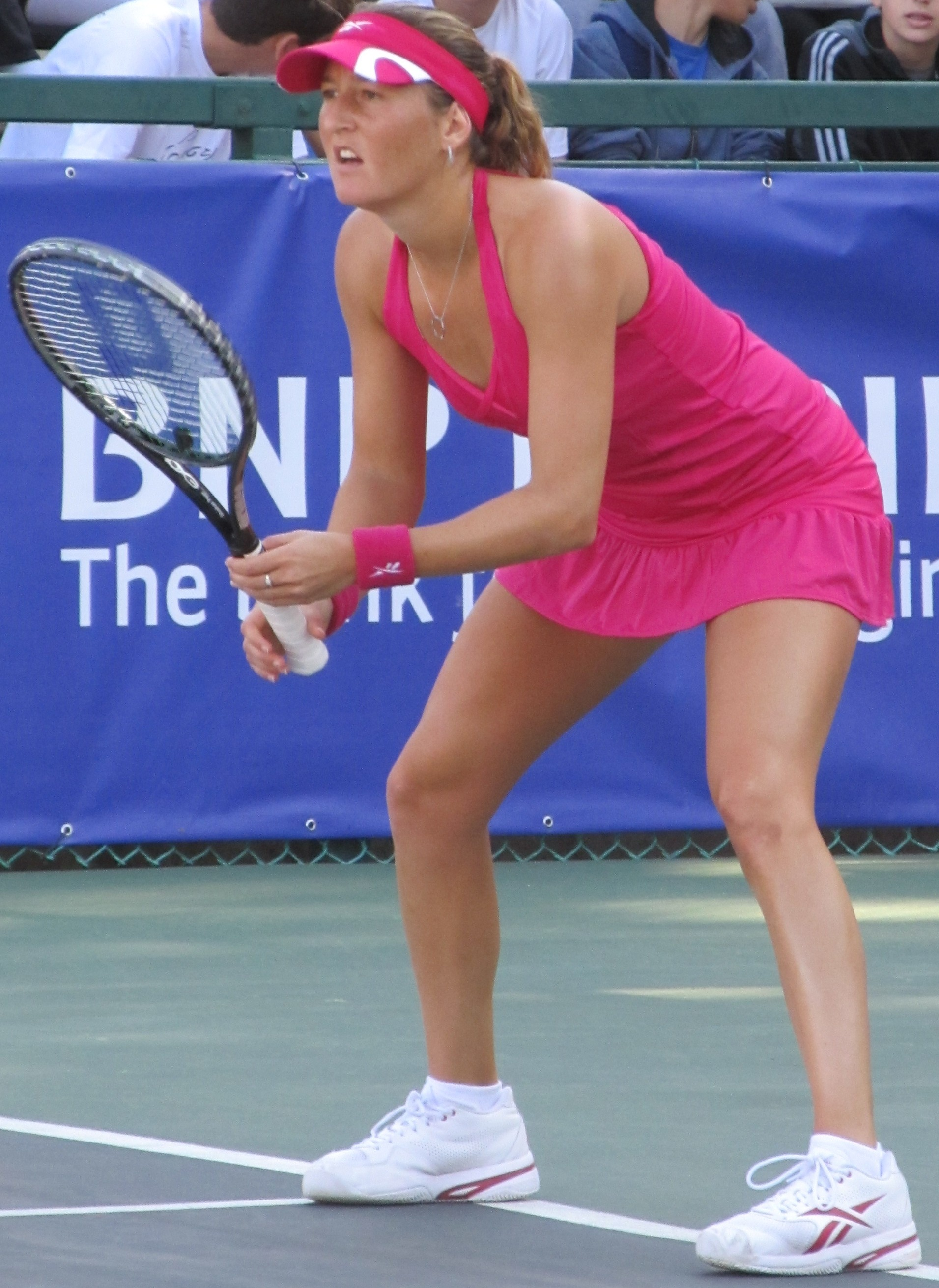 Israeli tennis player Shahar Pe'er at the Israel tennis championship 2011 final against Julia Glshko